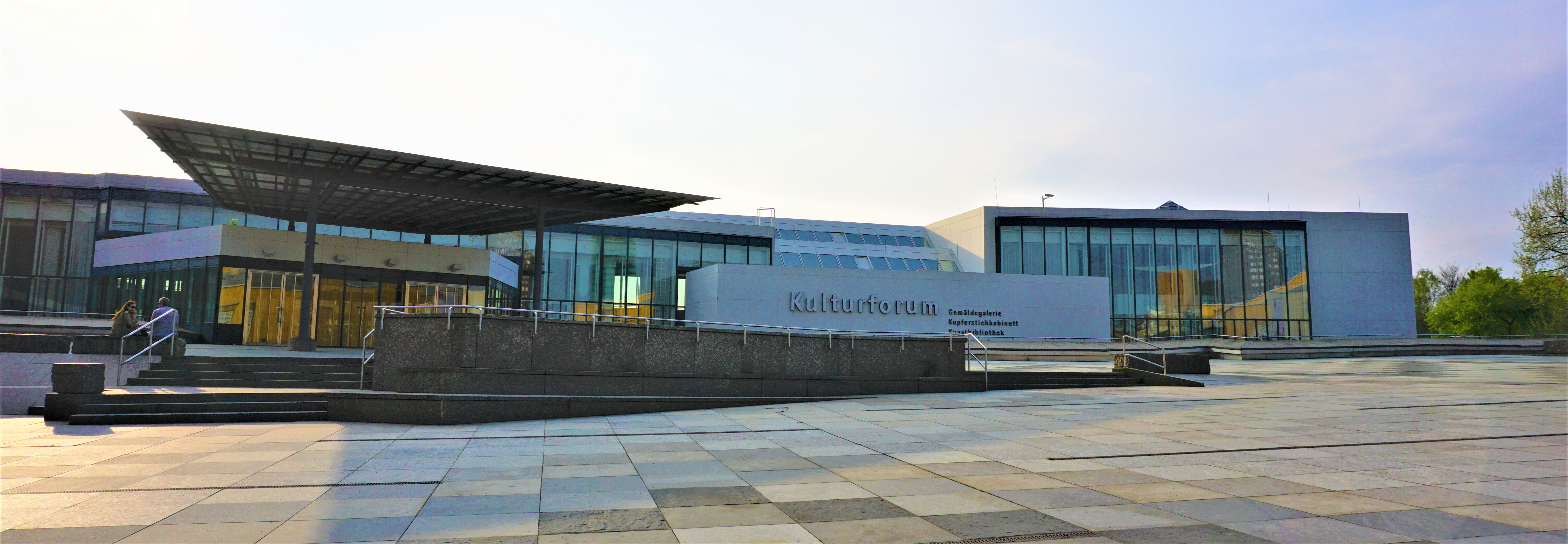 Gemäldegalerie, Berlin - Joy of Museums - for information